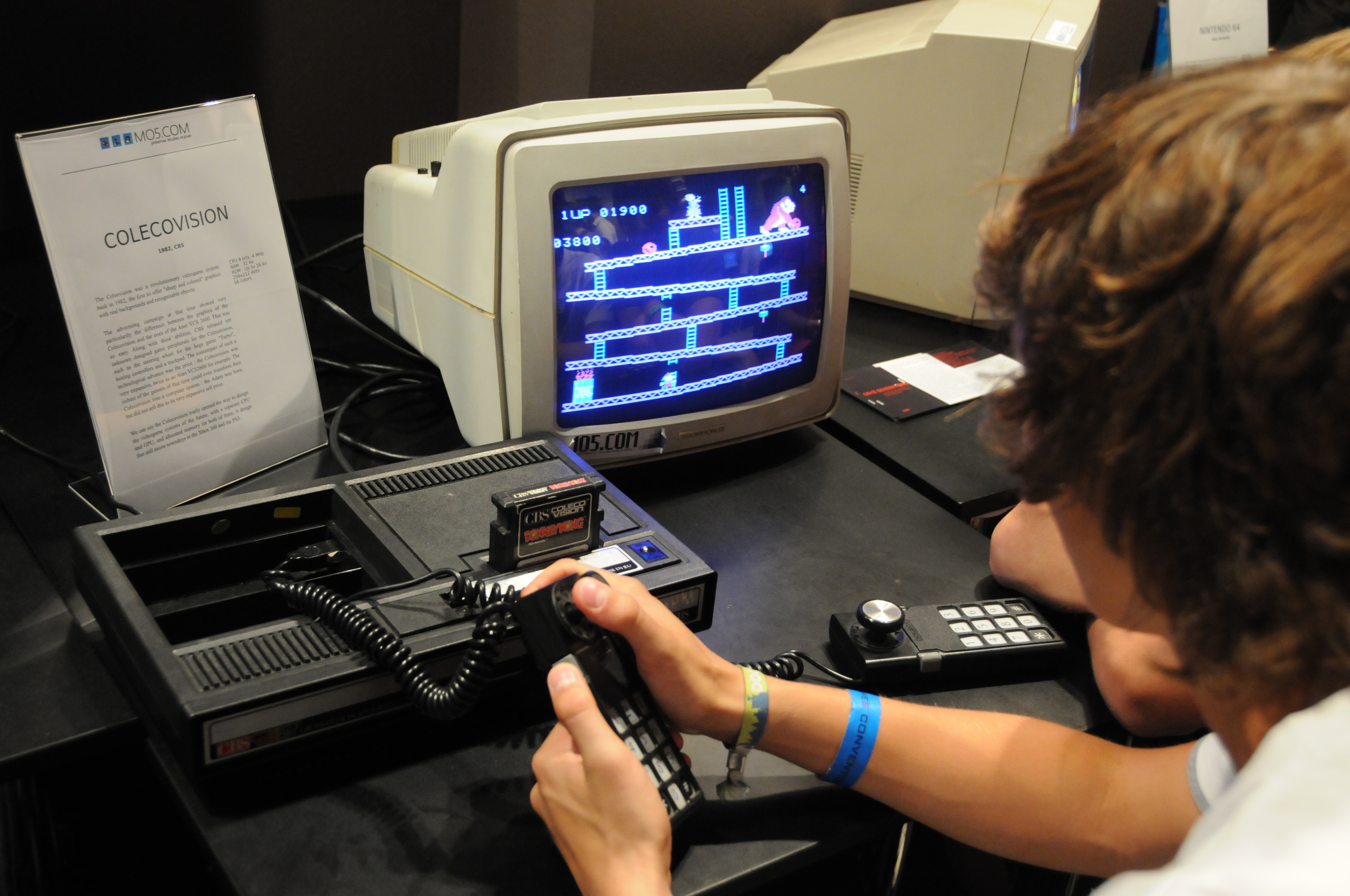 Games Convention 2008, ColecoVision